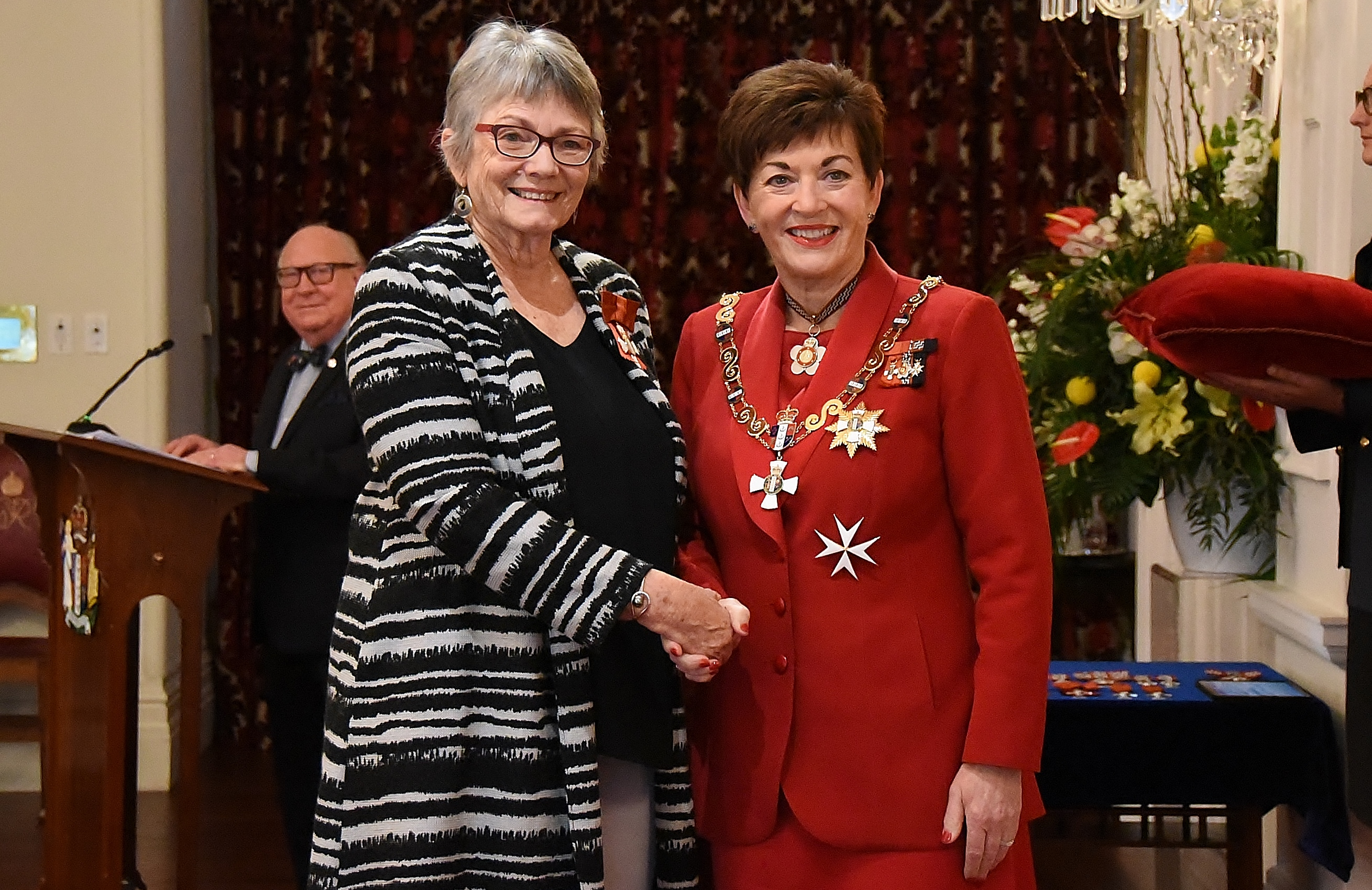 Lesley Rhodes, of Nelson, after her investiture as CNZM, for services to science and marine farming, by the governor-general, Dame Patsy Reddy, on 1 September 2017